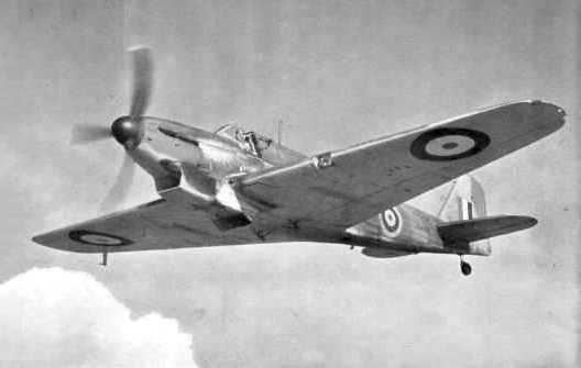 Fairey Fulmar Mk. I carrier-borne fighter and recce seen from the underside (1941)